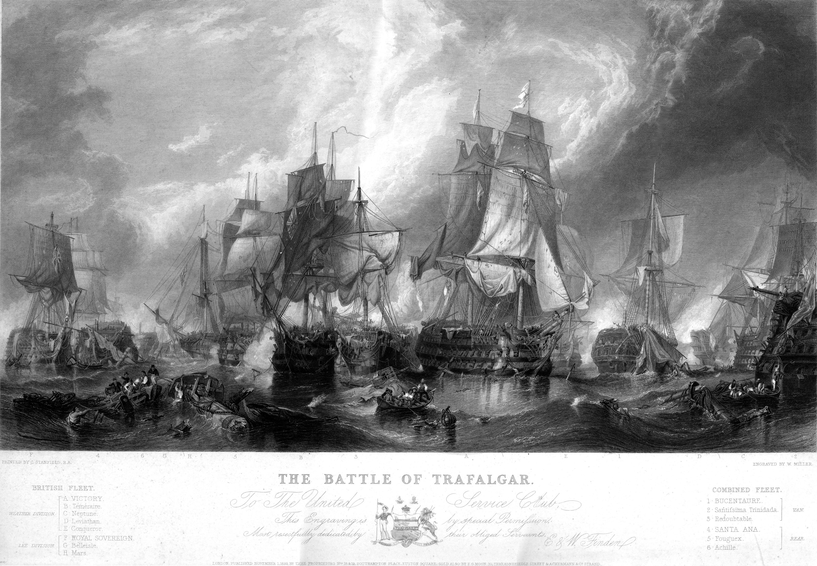 Battle of Trafalgar, engraving by William Miller (Miller paid £315-10-0 in viii-1839 for engraving), after Clarkson Stanfield, published in Finden's Royal Gallery of British Art, Published by the Proprietors, at 18 and 19, Southampton Place, Euston Square; sold by F. G. Moon, 20, Threadneedle Street, and Ackermann & Co., Strand, London, 1838-1849